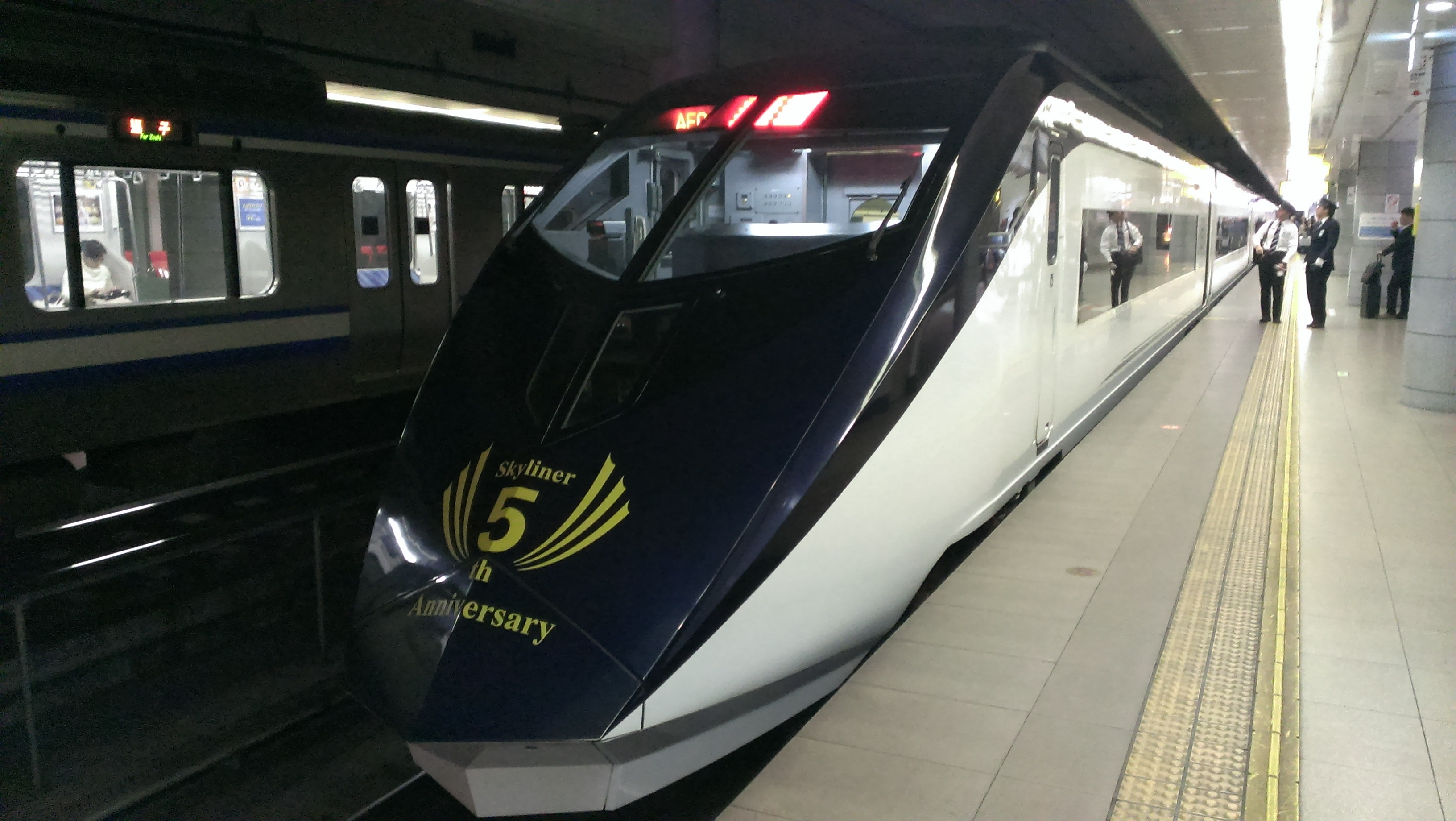 5th Anniversary logo of Skyliner.